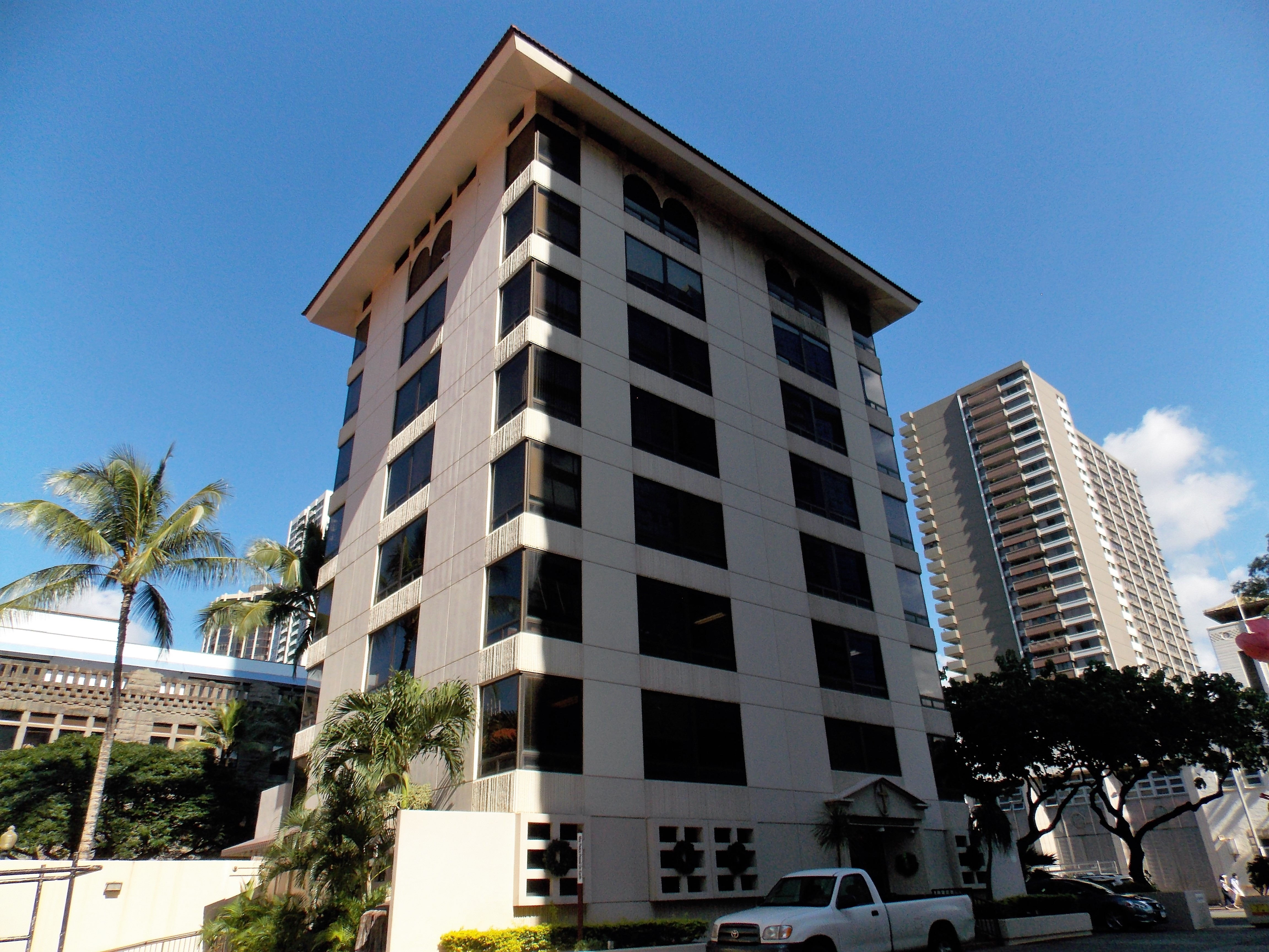 The pastoral center for the Catholic Diocese of Honolulu located next to the cathedral Basilica of Our Lady of Peace in downtown Honolulu.